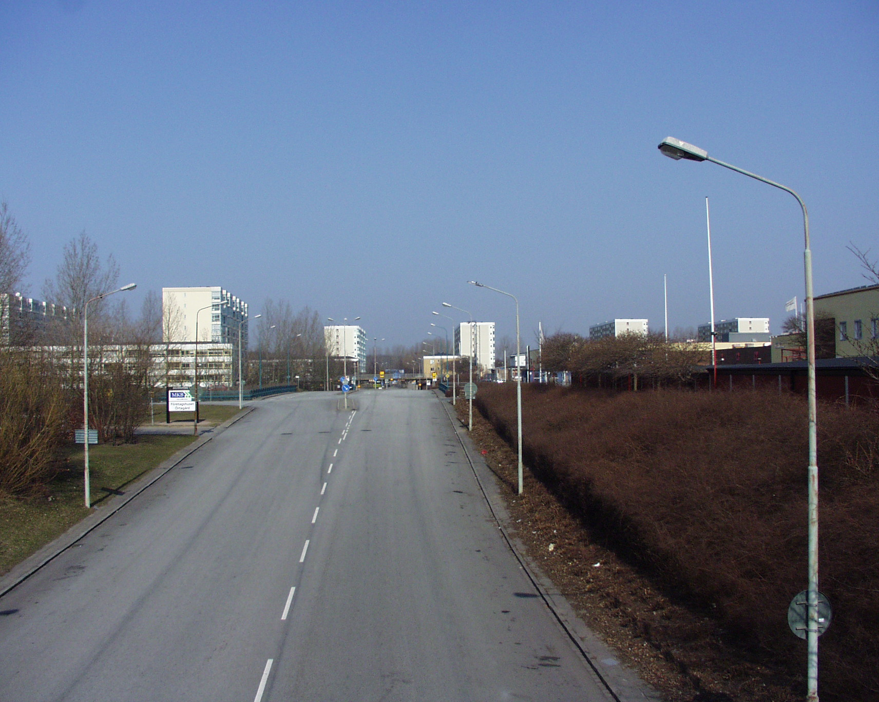 Looking north from "Rosengårds Centrum" (a shopping mall) Date: spring 2003